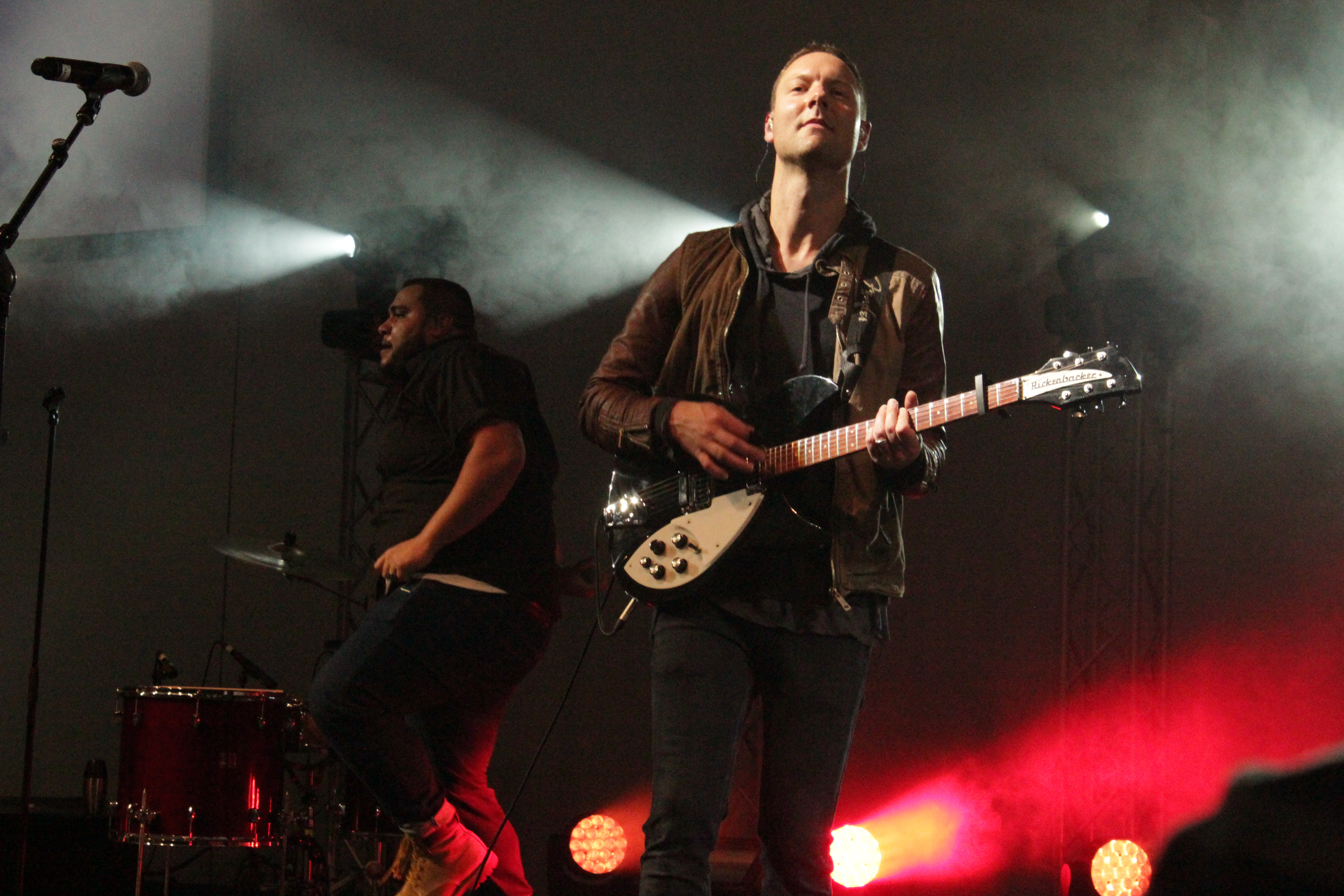 Reuben Morgan in Berlin, Germany, 22 May 2013.